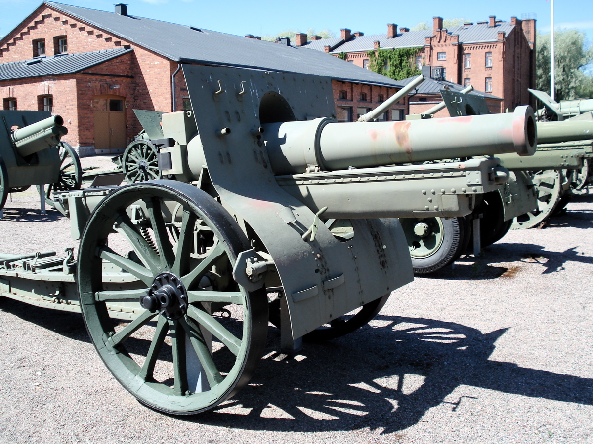 French 155 mm M1917 Schneider howitzer, displayed in Hämeenlinna Artillery Museum. This particular gun was manufactured in 1917. Photo taken on June 18, 2006. Source: Photo by me, User:Balcer.